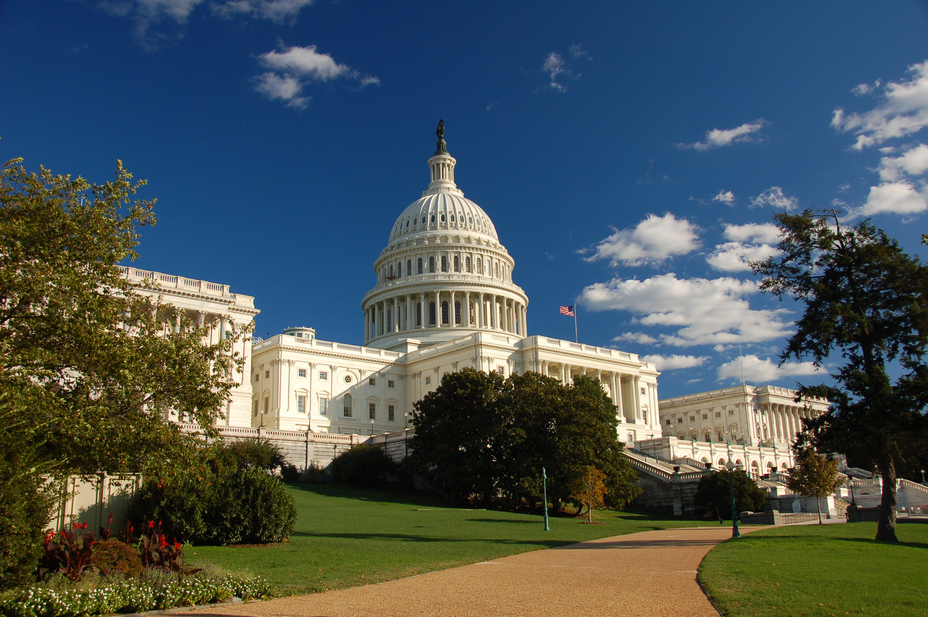 Capitol Building, US Capitol Building, Washington, DC Location: Washington, D.C.